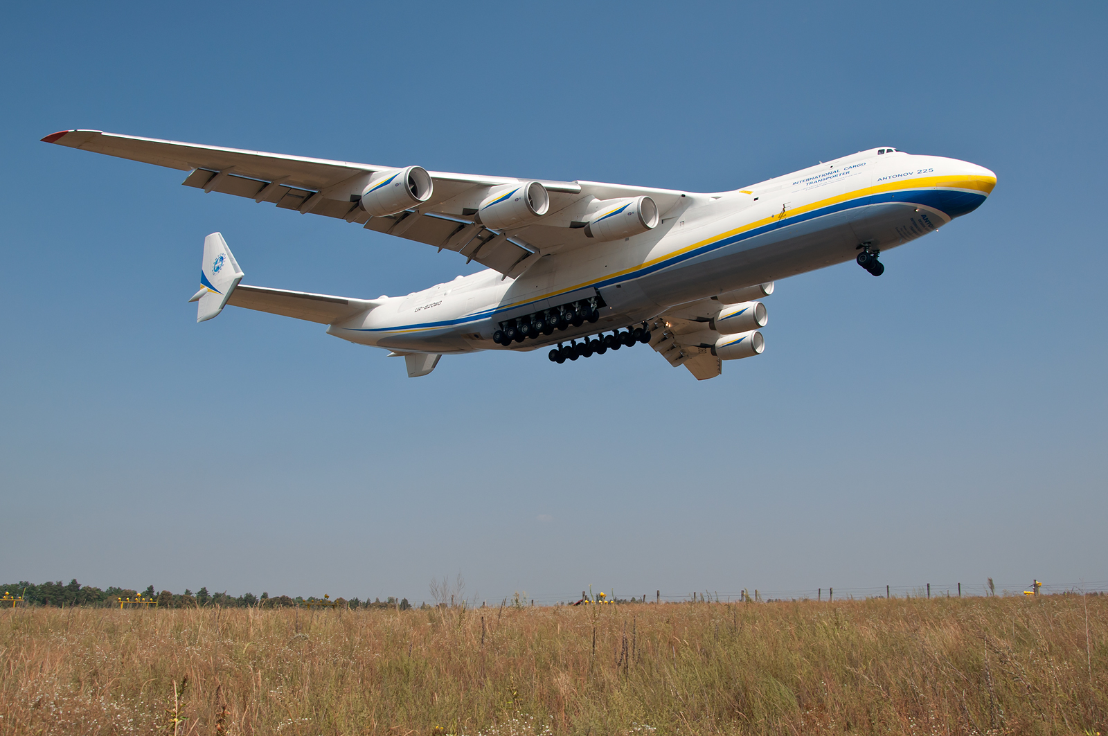 Antonov An-225 landing at Gostomel Airport